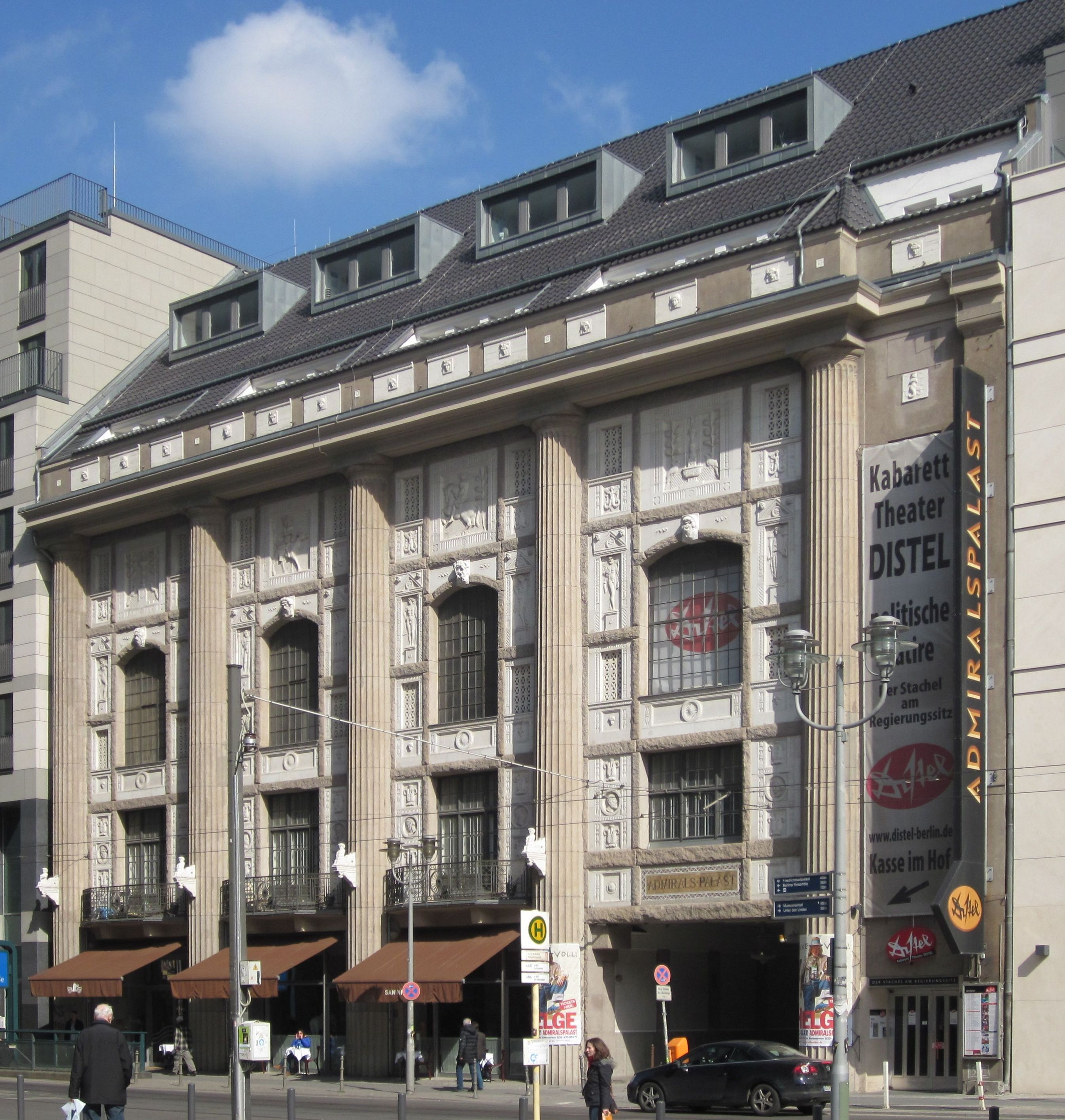 The Admiralspalast at Friedrichstraße No. 101-102 in Berlin-Mitte. It was built from 1910 to 1911 to a design by Heinrich Schweitzer as an entertainment venue and has been altered several times since. It has been designated as a historic landmark.